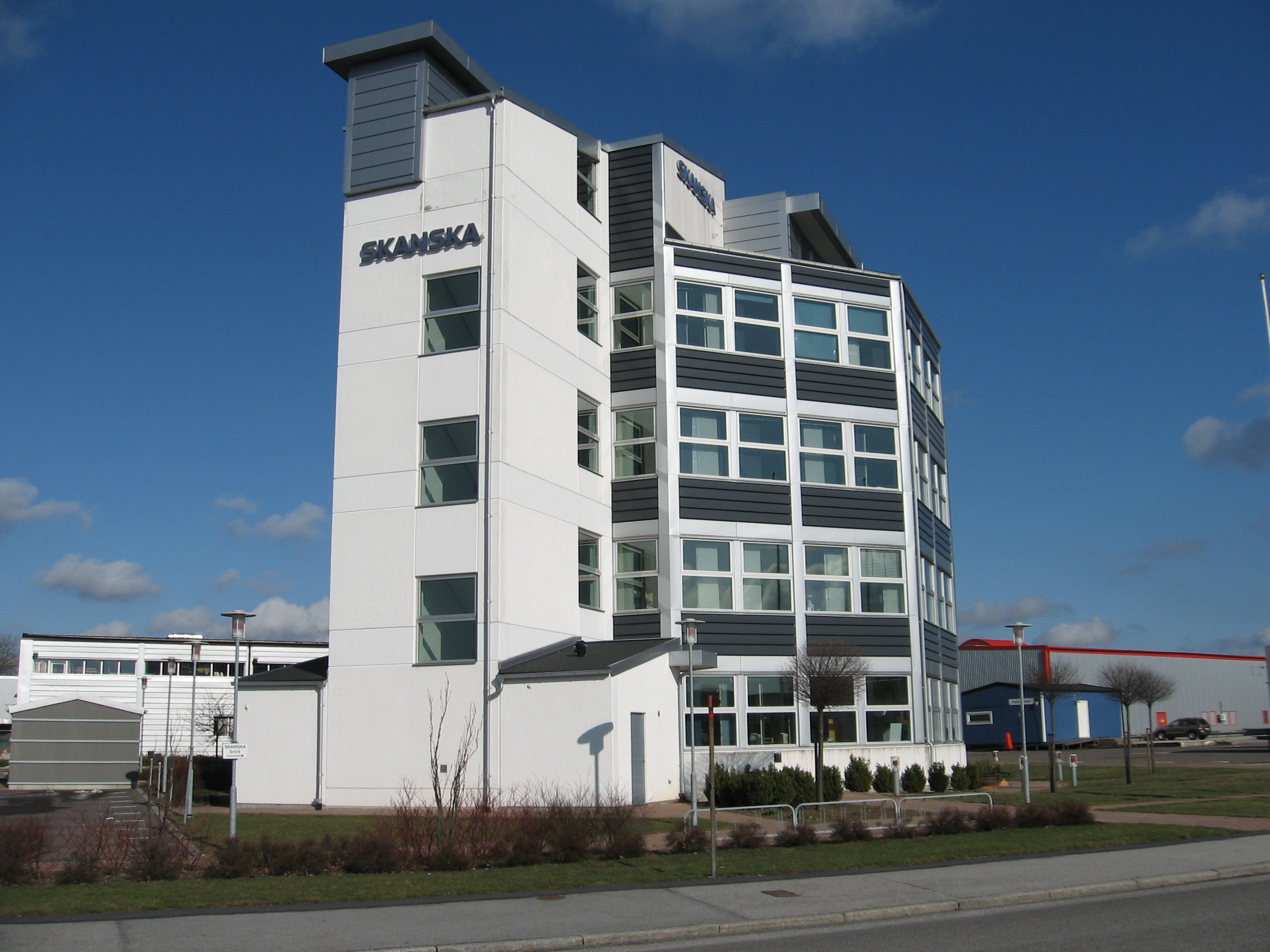 Skanska office in Lund